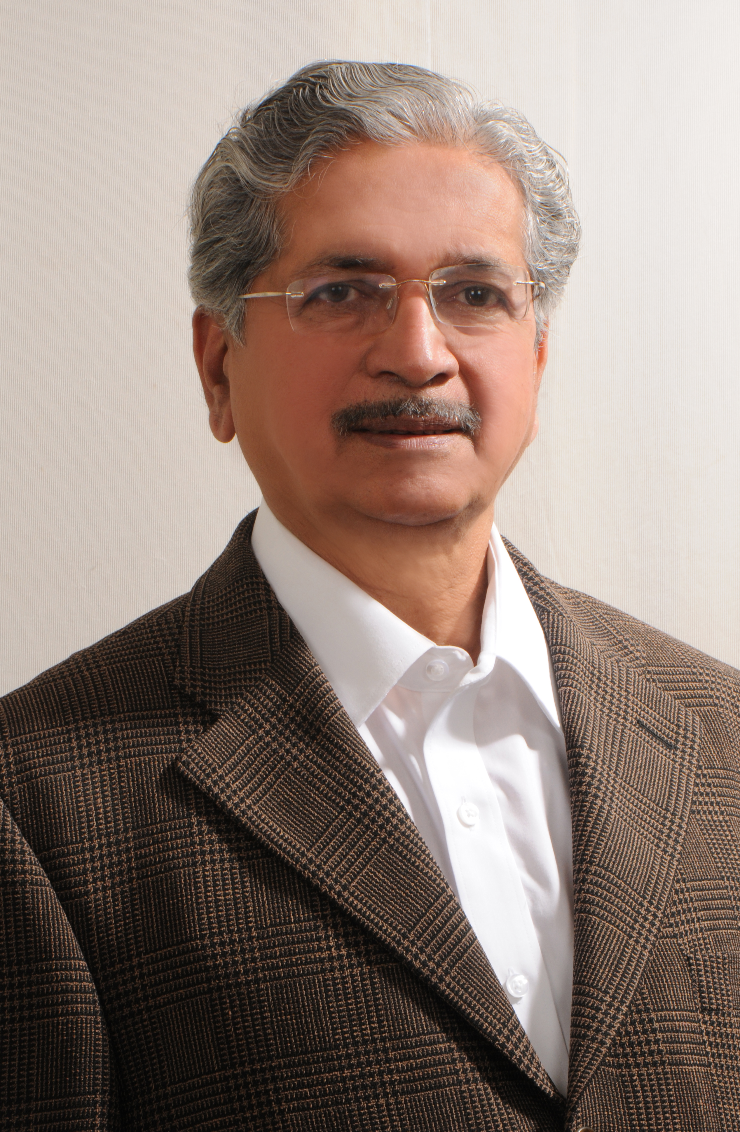 Subhash Desai, Industry Minister of Maharashtra